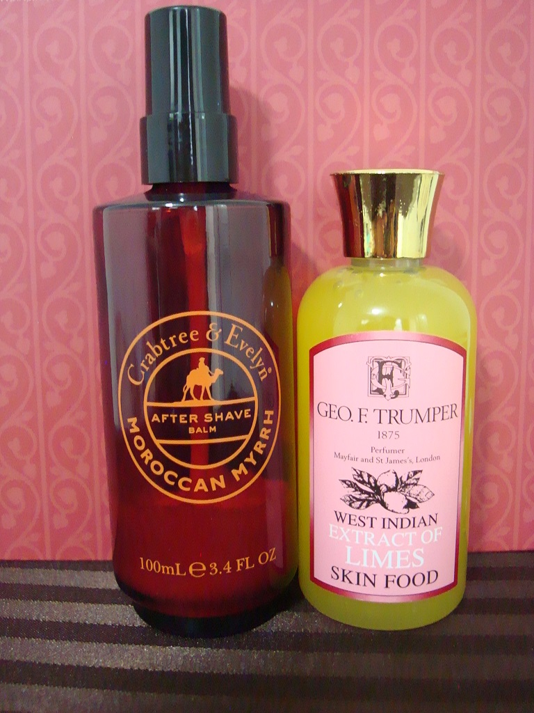 Types of aftershave